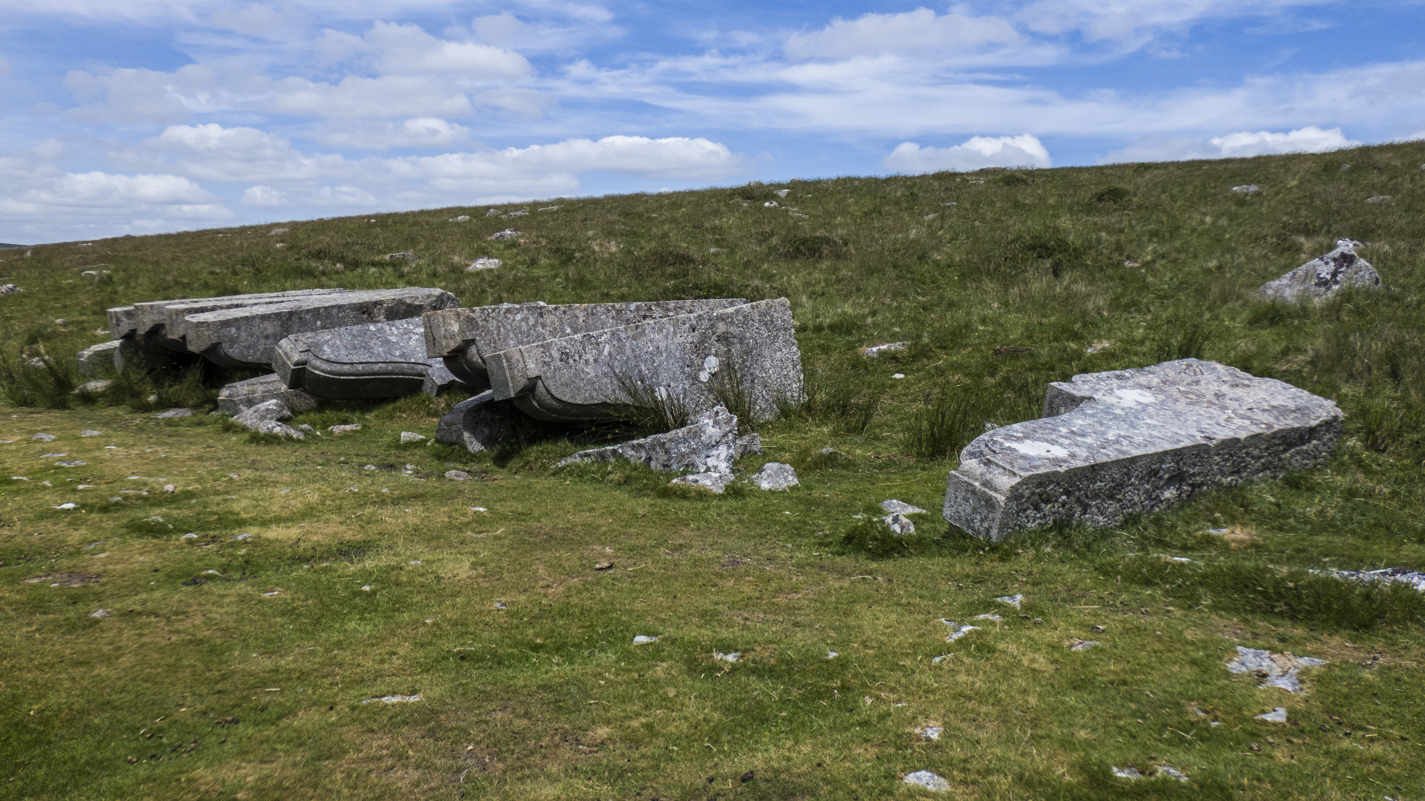 A set of 12 granite corbels, lying by Swell Tor Quarry, Dartmoor. These were originally quarried and shaped for London Bridge ("New" London Bridge, 1831–1967), in Swell Tor Quarry, on Dartmoor. The corbels are about ten feet long. These corbels are described in the book Dartmoor 365, by John Hayward; location N6.